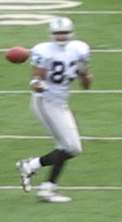 Oakland Raiders tight end Courtney Anderson catches a pass during an away game against the Cincinnati Bengals on December 10, 2006. Cropped from original.